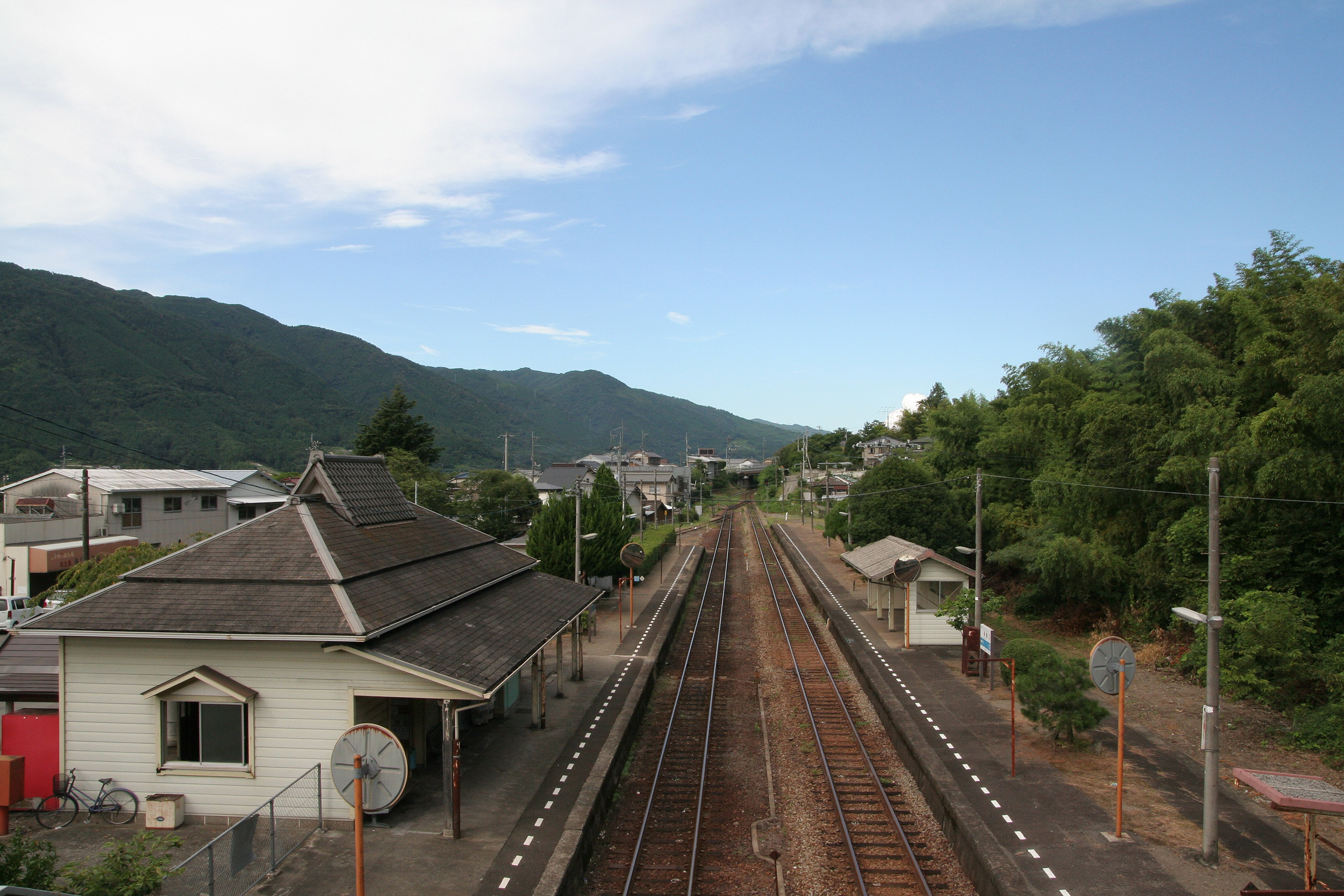 Shikoku Railway Dosan Line hashikura Station enclosure